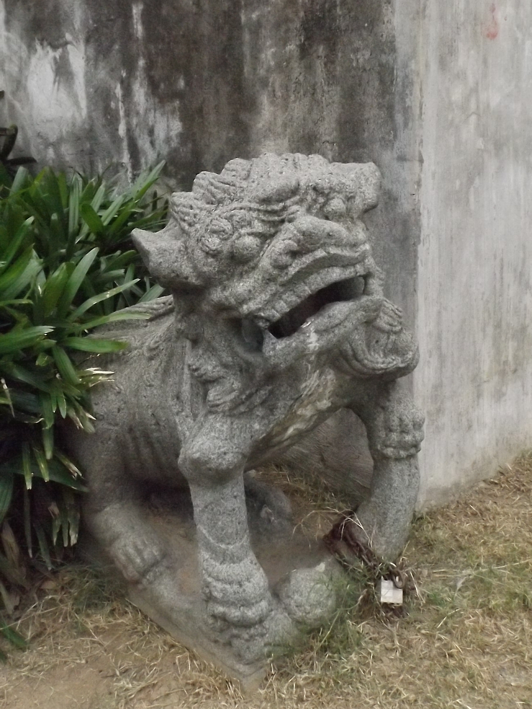 Gargoyle seen at the Main Entrance